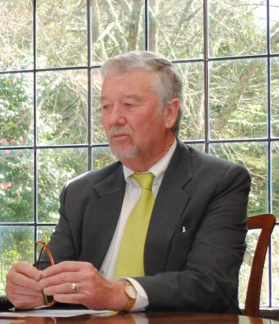 Patrick Savage, Chief Justice of Niue, at Government House Vogel in Lower Hutt, New Zealand, in 2010.